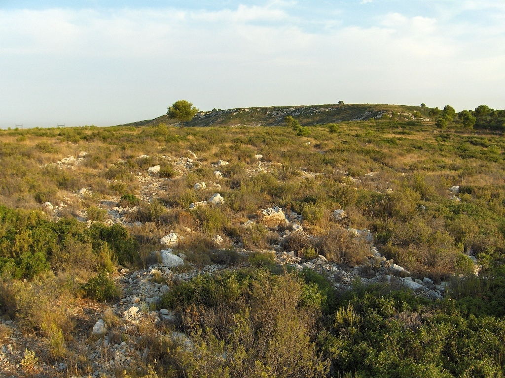 Scrubland at La Couronne (Commune of Martigues, Bouches-du-Rhône, France)